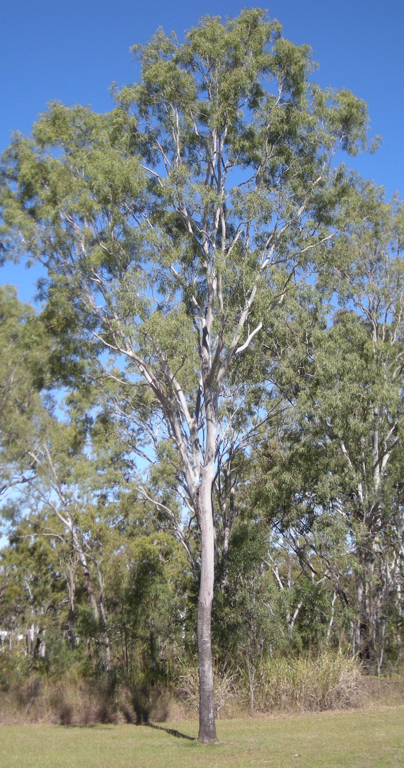 Corymbia tessellaris tree